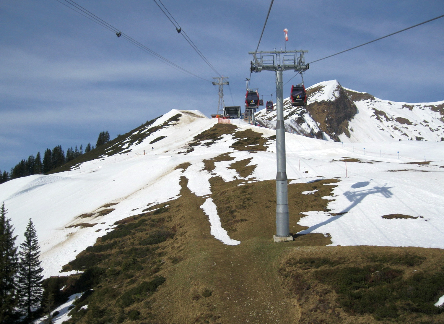 Fellhorn cableways